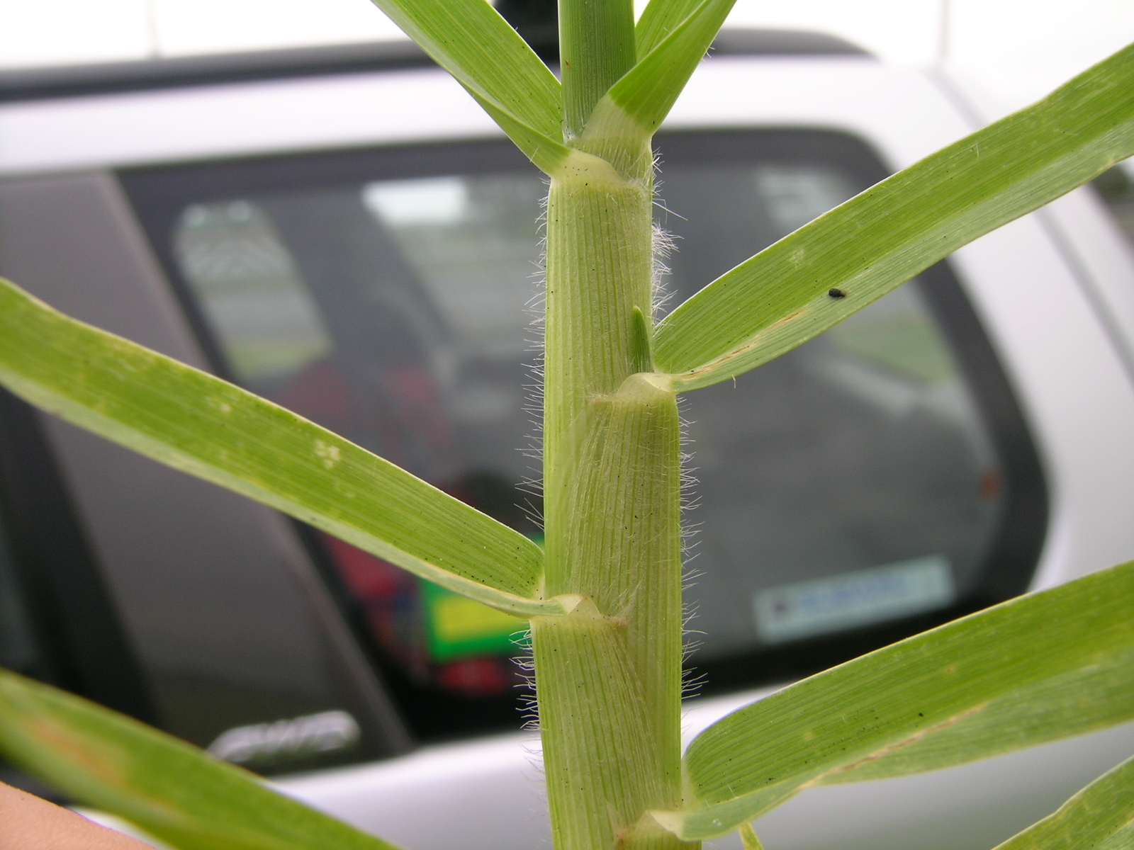 Kikuyu-grass Pennisetum clandestinum leaf_sheath